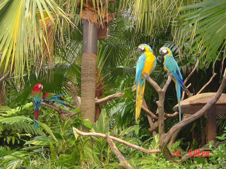 Macaw Photo by Dice. on 2004.08 at Ocean Park, Hong Kong